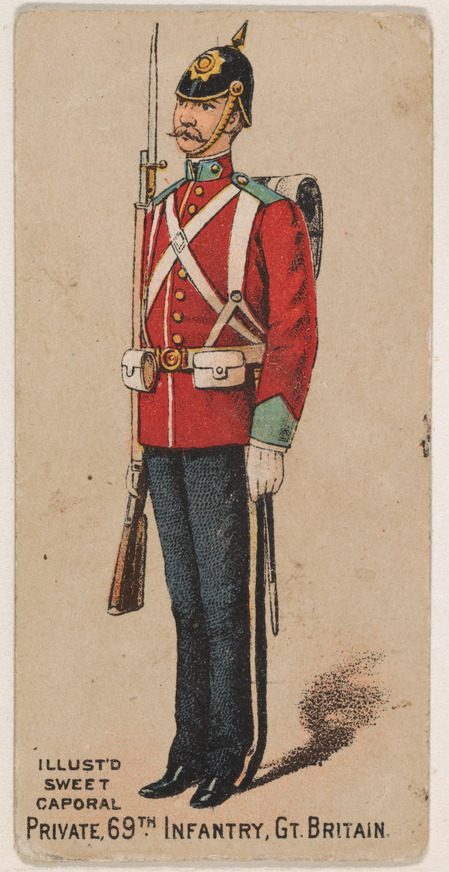 Print; Prints